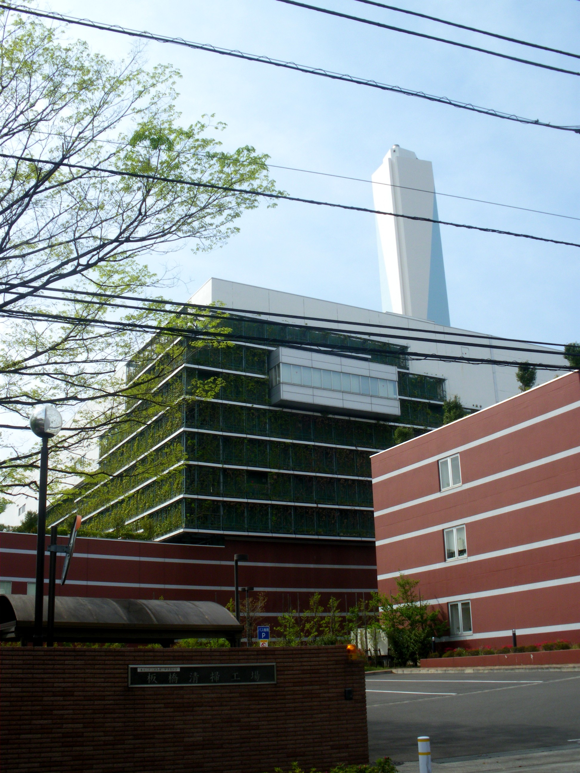 Itabashi Waste Disposal Center(Takashimadaira,Itabashi,Tokyo)